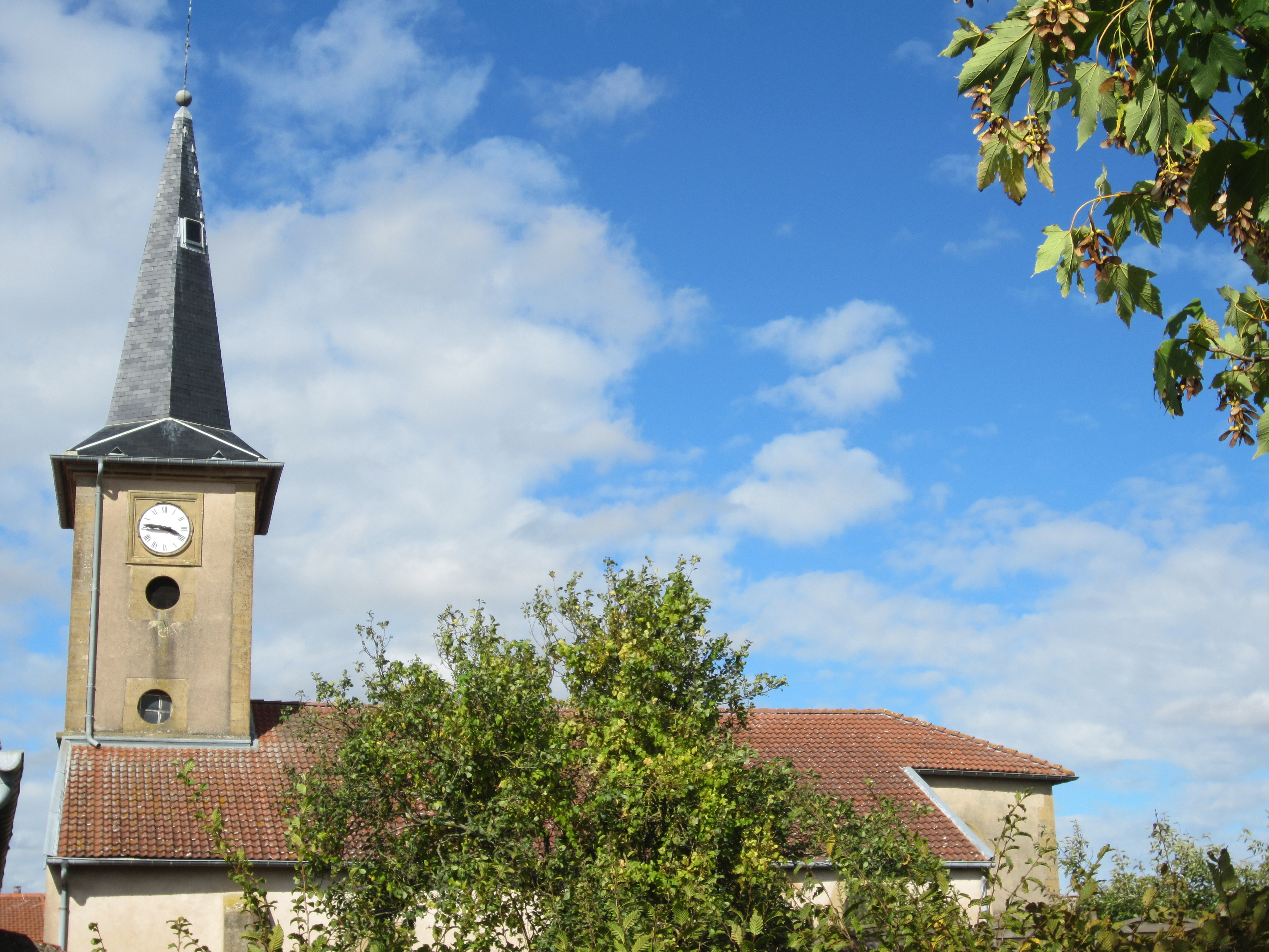 Description eglise Jouaville Date13 September 2011Sourcemon appareil photoAuthorAimelaimePermission (Reusing this file) eglise Jouaville